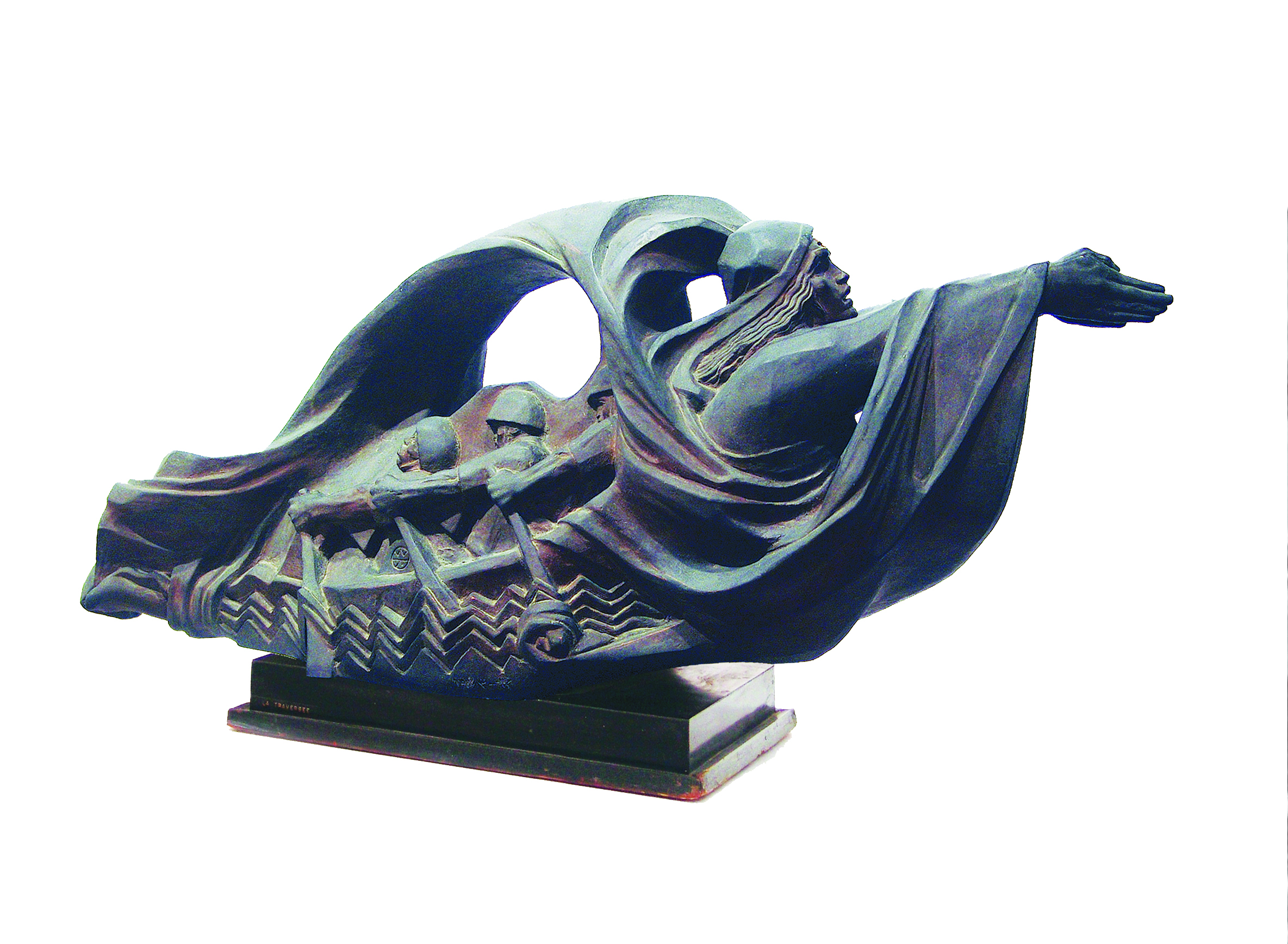 Statue called "The Great Crossing of Suez Canal" by Egyptian Sculptor Gamal El-Sagini